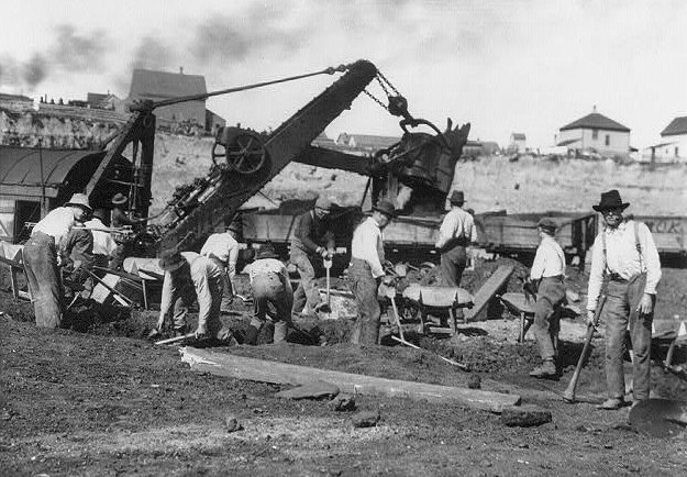 Miners at work on the Mesabi Range in northeast Minnesota.